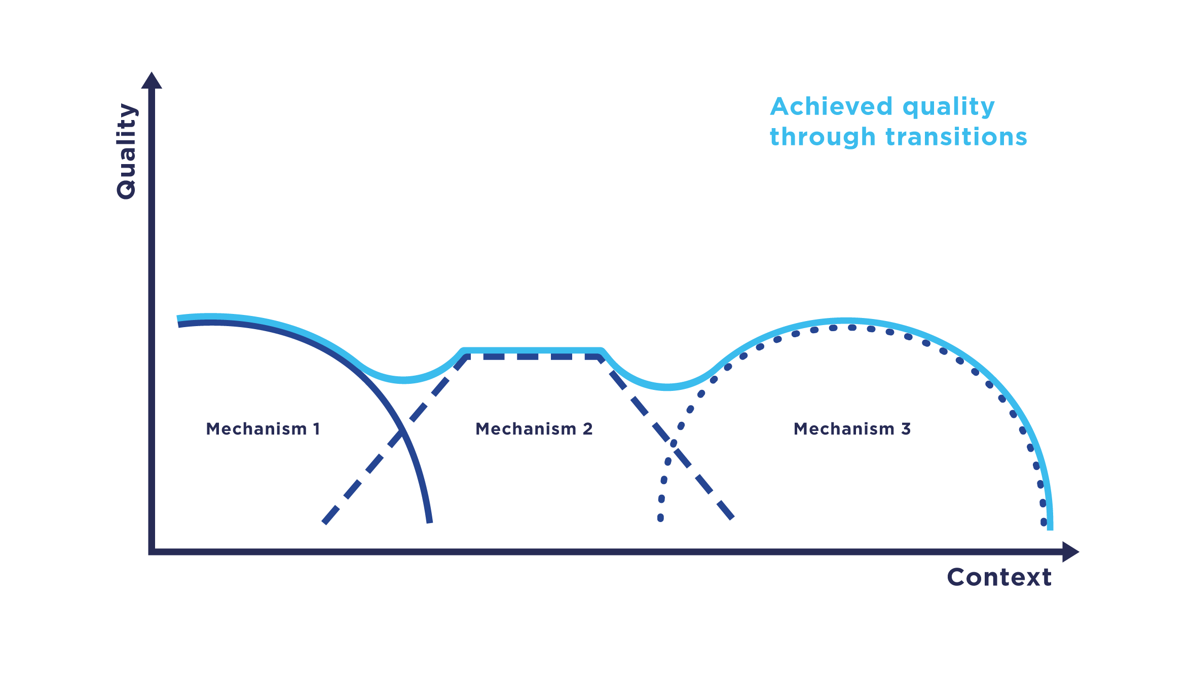 Transitions and the subsequent adaptation of communication systems enable the optimization of the communication quality despite changing conditions.